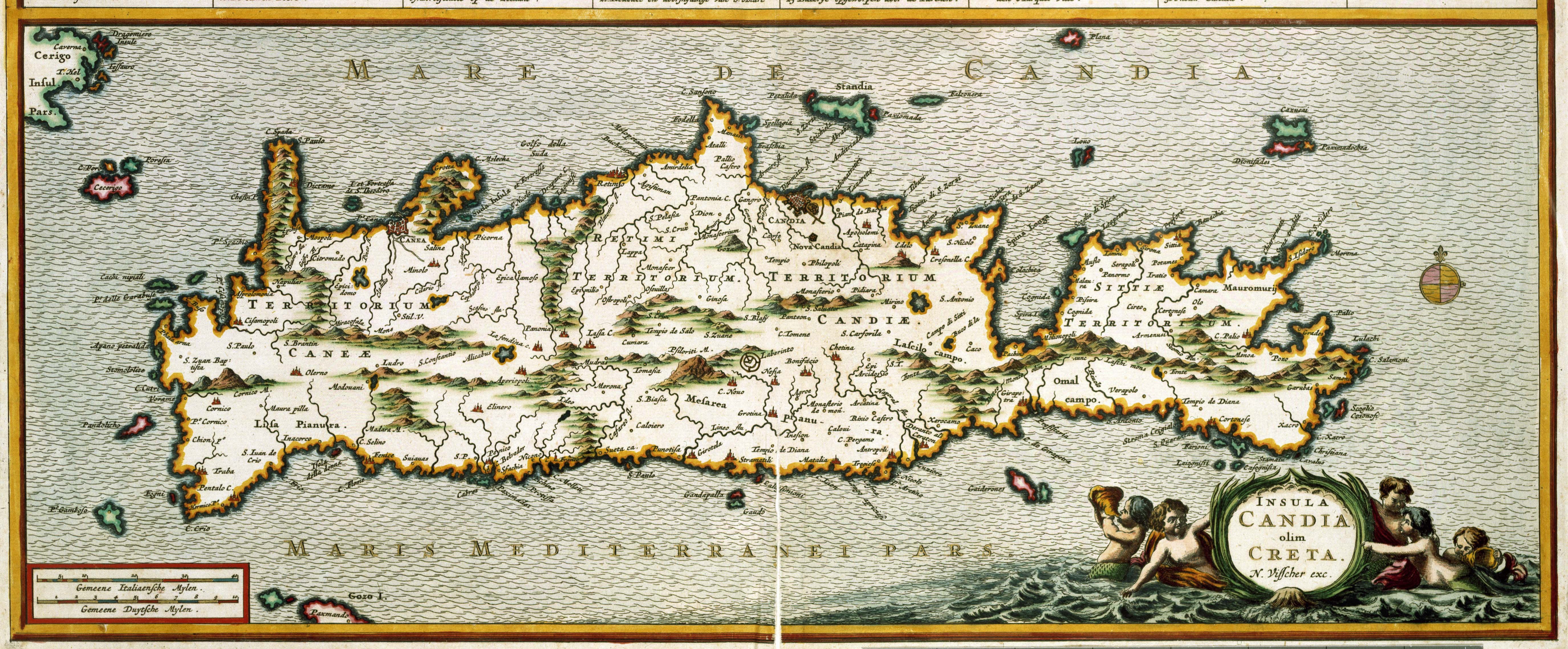 For this map of Crete, Nicolaes Visscher I (1618-1679) probable used an older map by the Danish cartographer Johann Lauremberg (1590-1658).